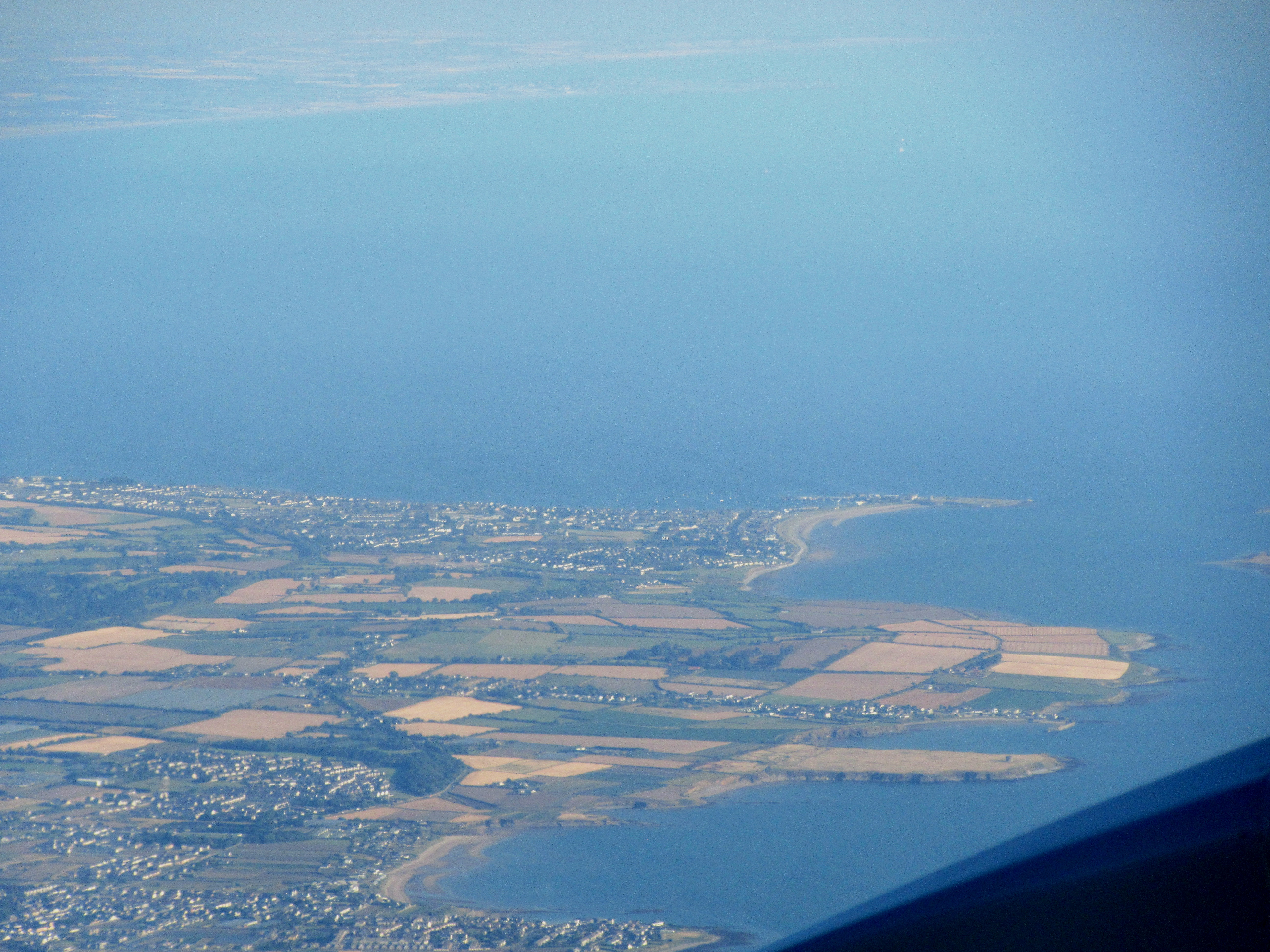 Skerries from Above. Taken from a Ryanair flight in August 2016.